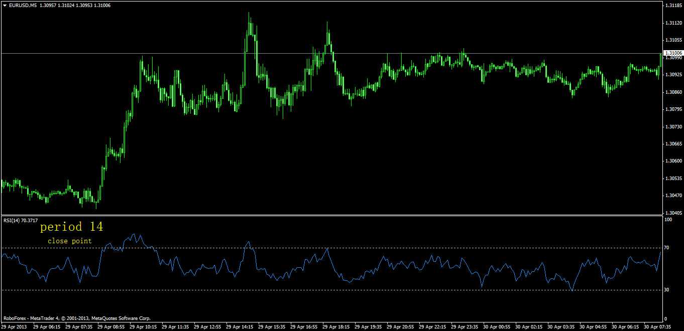 indicator rsi